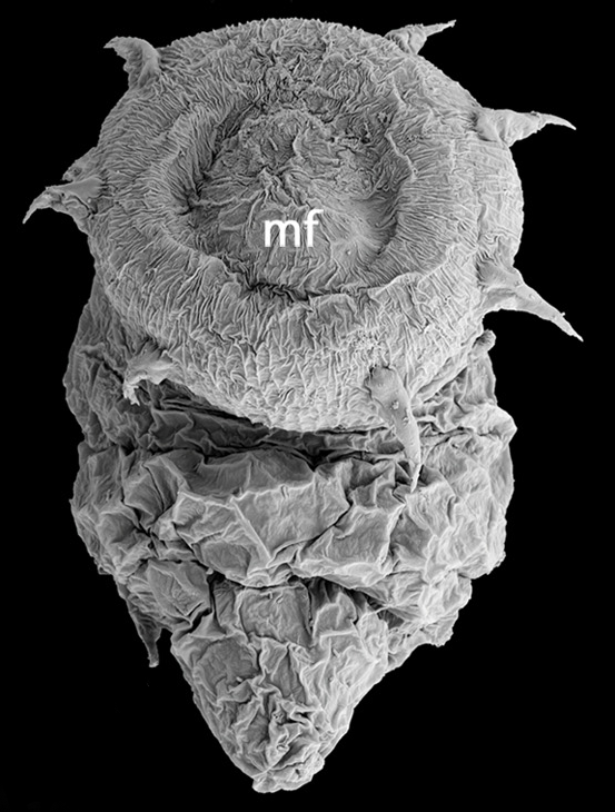 Newly hatched larva of the priapulid Halicryptus spinulosus. Mouth field (without mouth opening itself) is labeled with "mf".